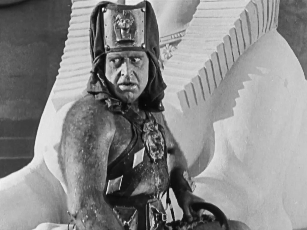 Screenshot from the silent film The Ten Commandments (1923).